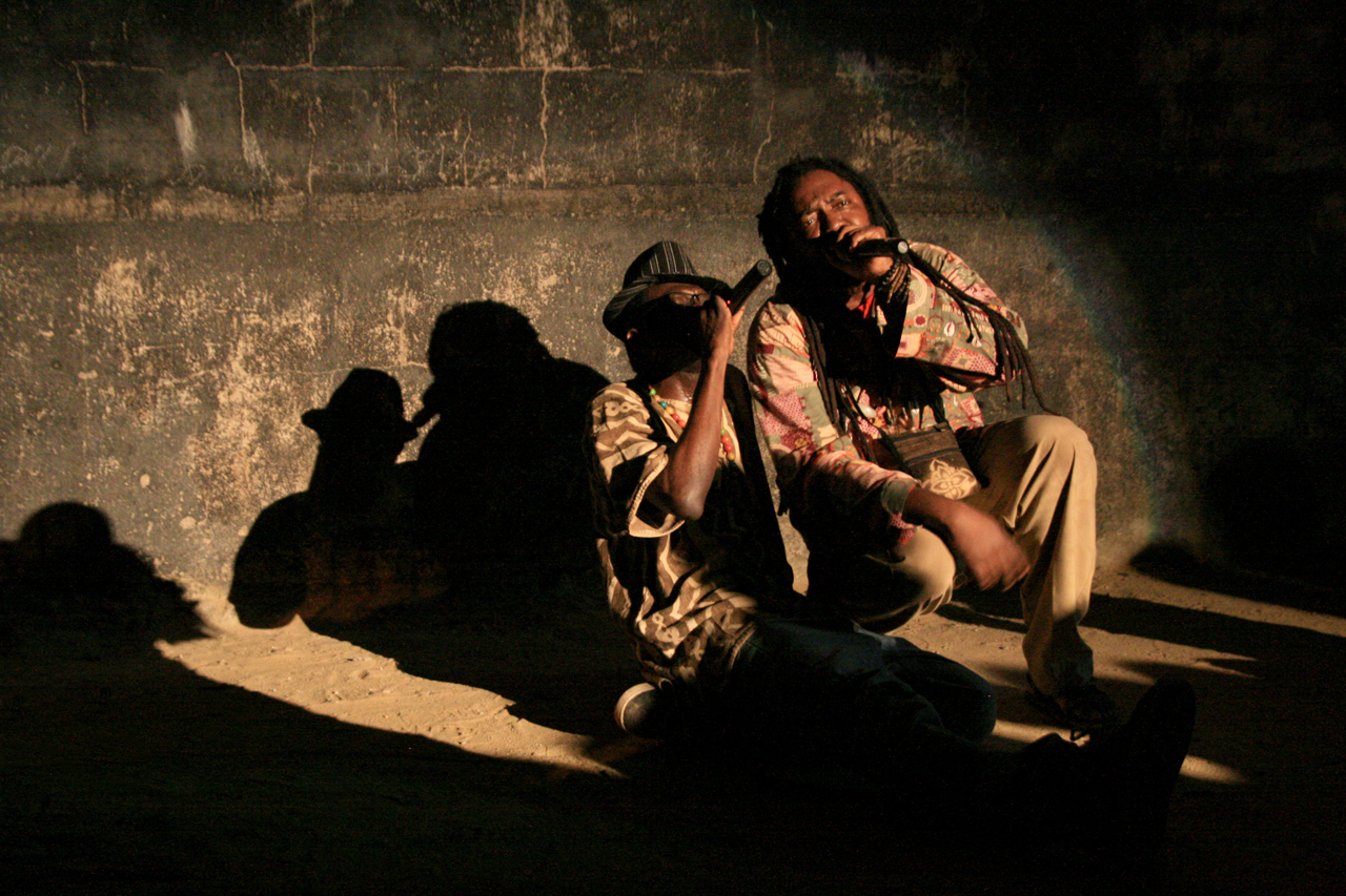 SUD Salon Urbain de Douala 2010. Triennial festival promoted by doual'art. Photo by Sandrine Dole. In the photo two well-known Cameroonian hip hop artists: Sadrake of Negrissim' (on the left) and Boudor Le noirokair (on the right).